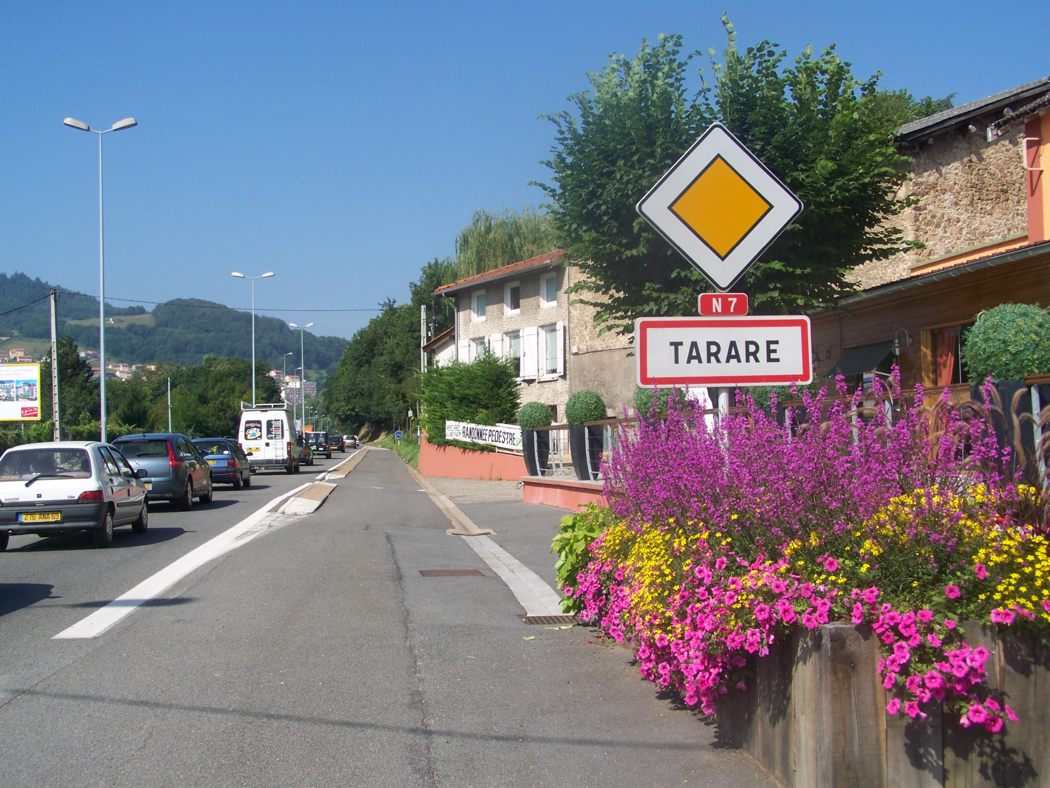 Sign welcoming visitors to the French commune of Tarare in the Rhône department, near Lyon.